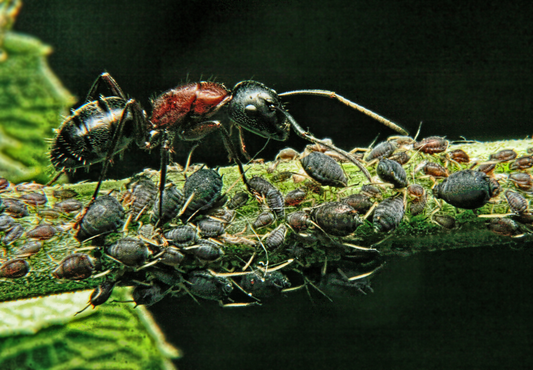 The following is the author's description of the photograph quoted directly from the photograph's Flickr page."Ants take on a role of either helping or farming aphids, I haven't quite made up my mind which it is. They will protect the aphids and I really think it's to fatten them up for the munch.Got to be seen large!UPDATE: Cool! From Wikepedia:provide from Flickr Member AgrinbergAphids secrete a sweet liquid called honeydew which they exude in the process of feeding from plants. The sugars can provide a high-energy food source, which many ant species collect. In some cases the aphids secrete the honeydew specifically in response to the ants tapping them with their antennas. The ants in turn keep predators away and will move the aphids around to better feeding locations. Upon migrating to a new area, many colonies will take new aphids with them, to ensure that they have a supply of honeydew in the new "